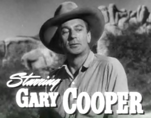 Cropped screenshot of Gary Cooper from the trailer for the film Along Came Jones